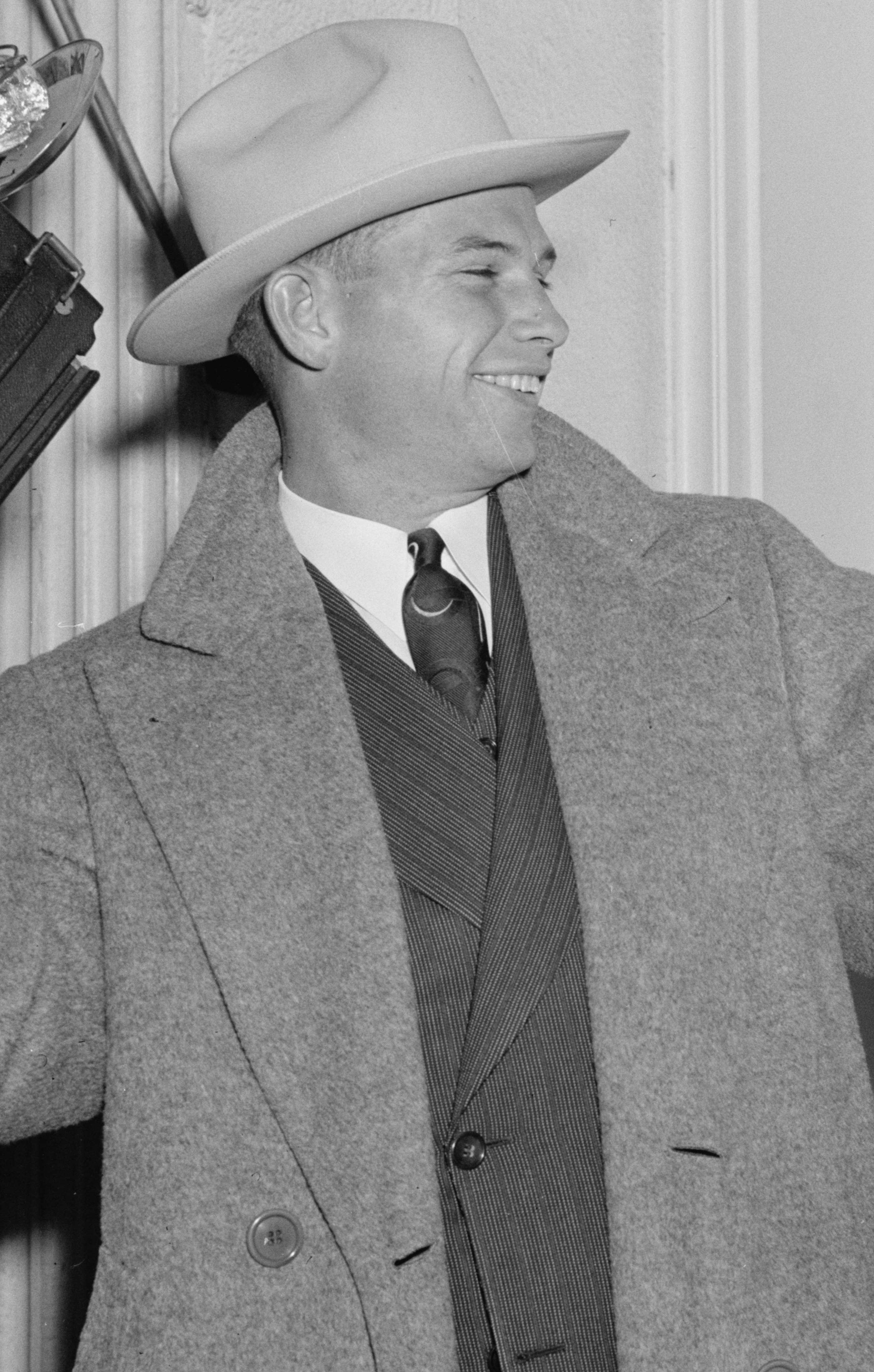 Title: Texas All-American demonstrates his art to Presidential Secretary. Washington, D.C., Jan. 9. In Washington to receive the Walter Camp Memorial Award from the Touchdown Club tonight, Davey O'Brien, Texas Christian's All-American passer, used a newsmen's camera to try to demonstrate his technique to Presidential Secretary Marvin H. McIntyre at the White House, 1/9/39 Abstract/medium: 1 negative : glass ; 4 x 5 in. or smaller